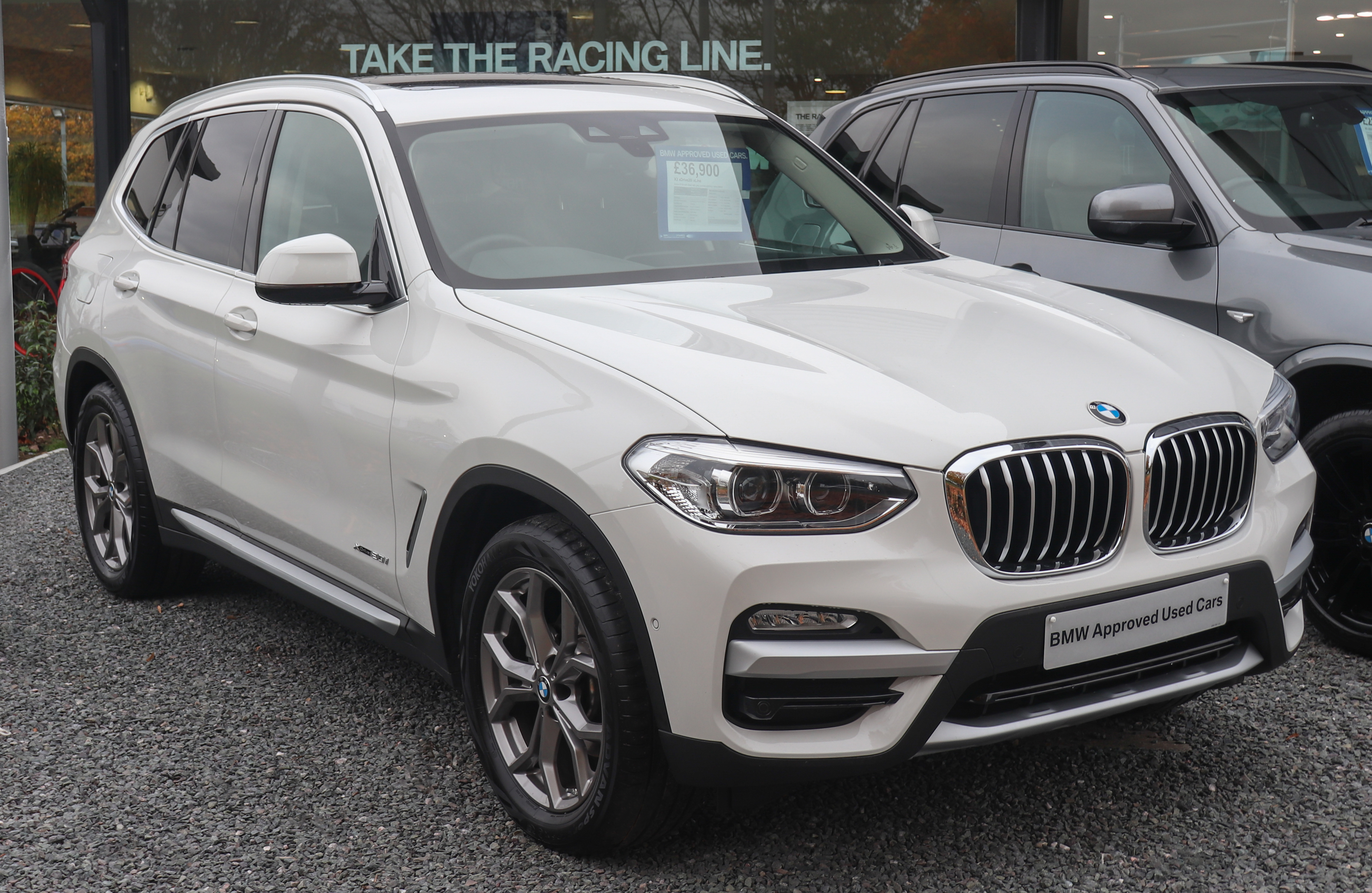 2018 BMW X3 xDrive30i Taken in Leamington Spa